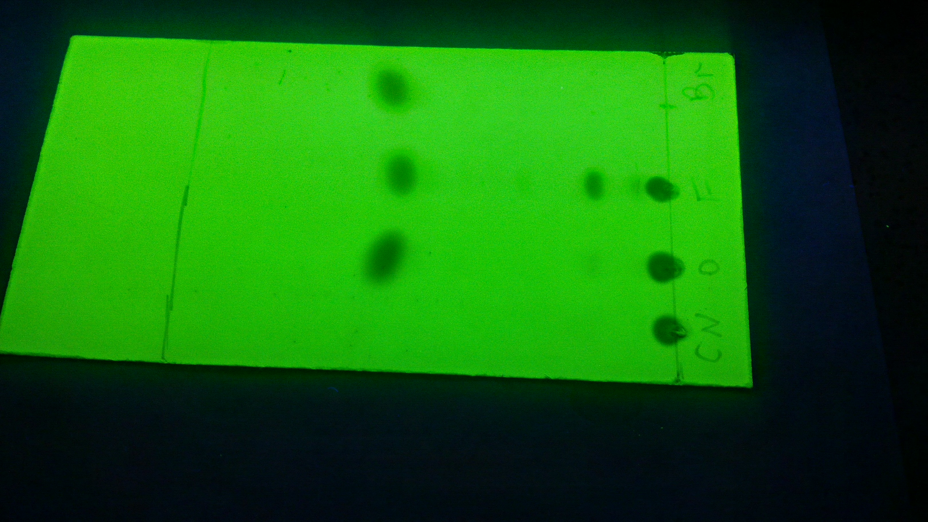 TLC plate after chromatography (from the closest to viewer point: para-para'-dicyanodiphenyldiselenide, mix of para-para'-dicyanodiphenyldiselenide and para-para'-dibromodiphenyldiselenide not exposed to light, mix of para-para'-dicyanodiphenyldiselenide and para-para'-dibromodiphenyldiselenide exposed to light and sole of para-para'-dibromodiphenyldiselenide), Faculty of Chemistry, University of Wrocław